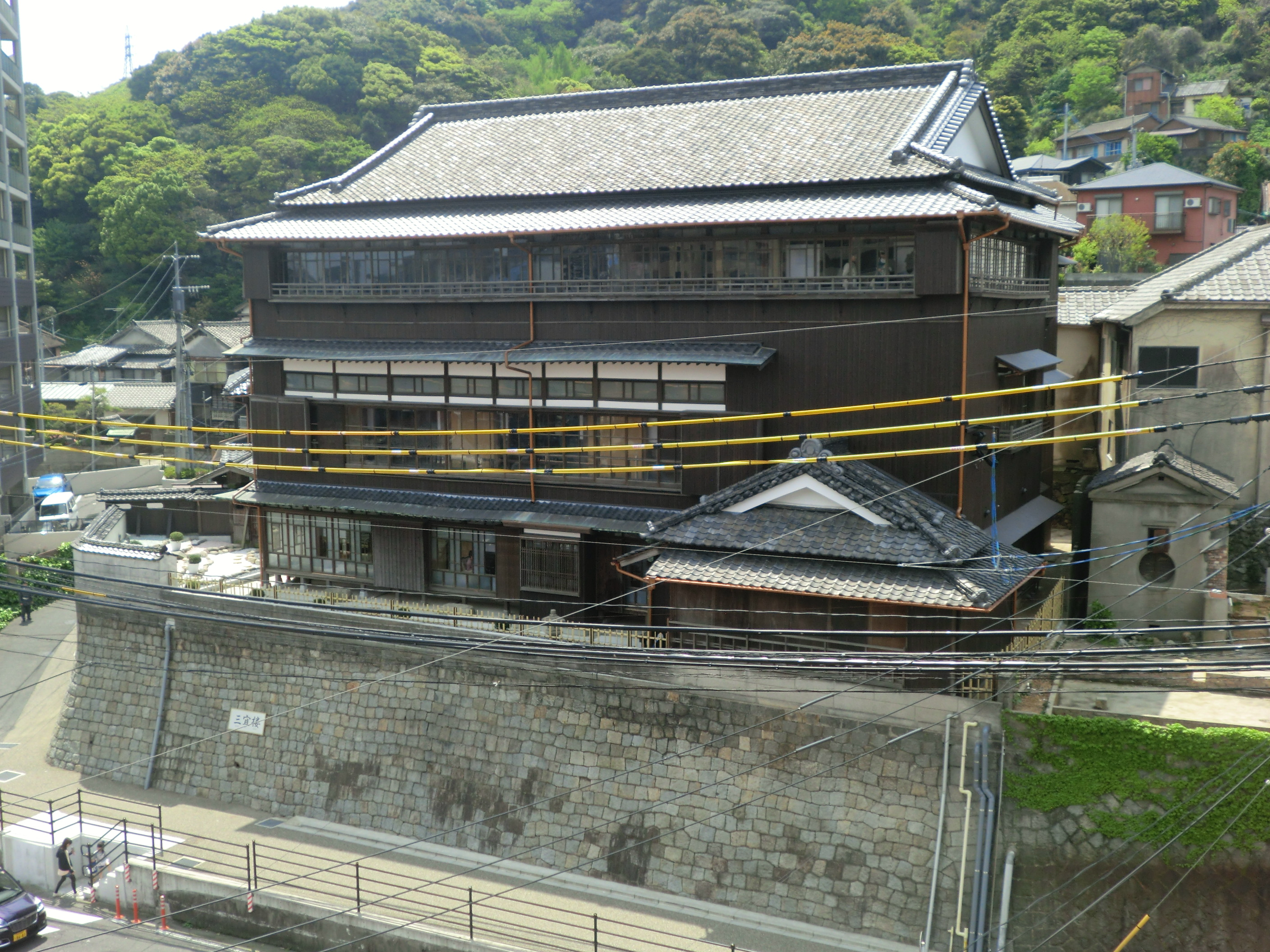 Ryotei restaurant "Sangiro" at Mojiko area in Kitakyushu, Fukuoka, Japan.